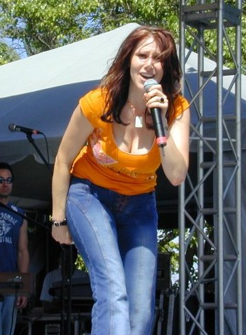 Tiffany, performing at Gulfstream Park in Florida, 2003. Taken by Daniel R. Tobias, who uploaded it here.